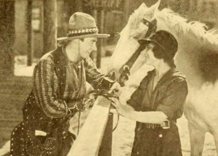 Still from the American western comedy film Go West, Young Man (1918) with Tom Moore and Ora Carew, on page 49 of the January 4, 1919 Moving Picture World.